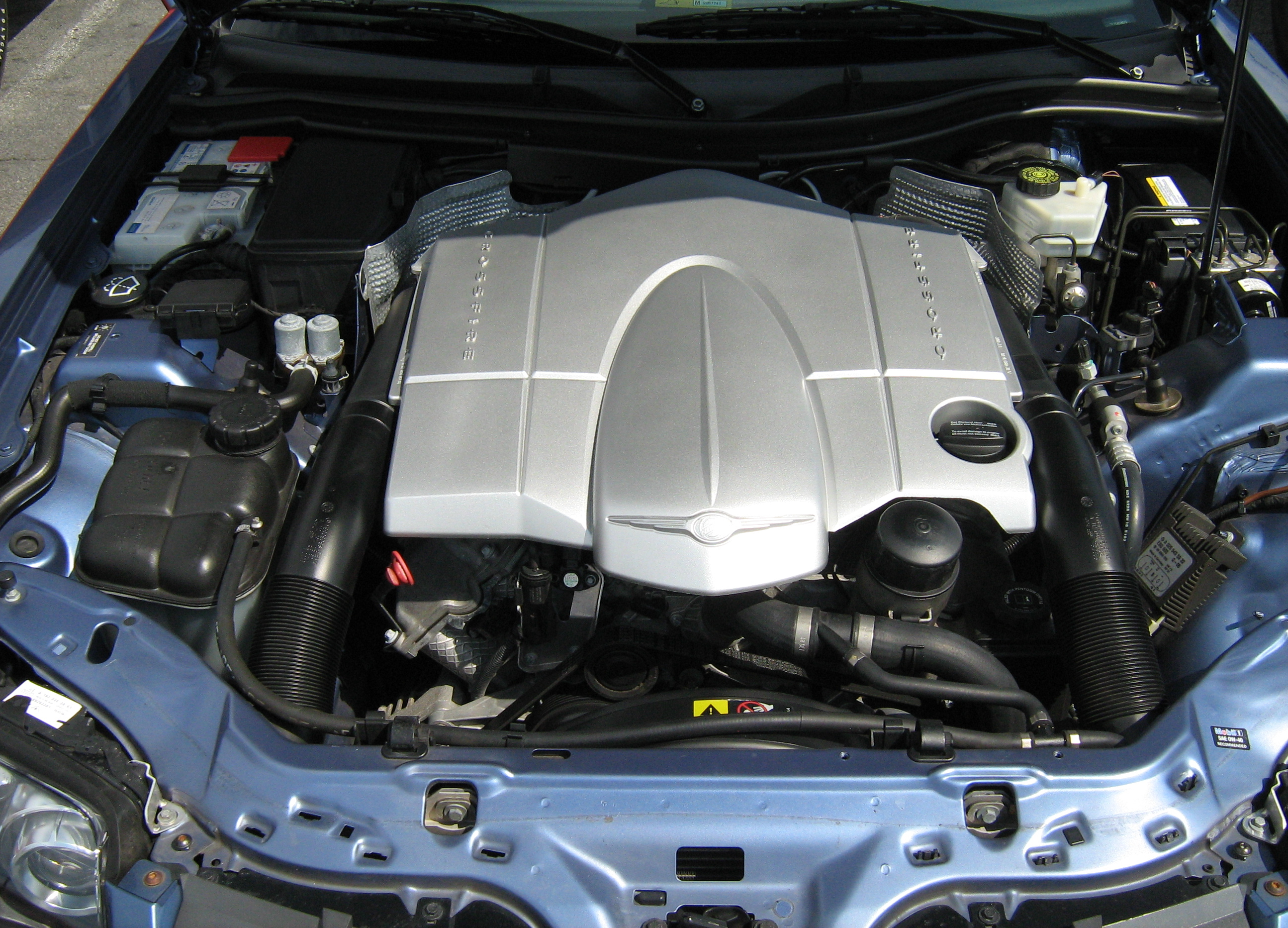 Chrysler Crossfire fastback coupe - view of engine compartment